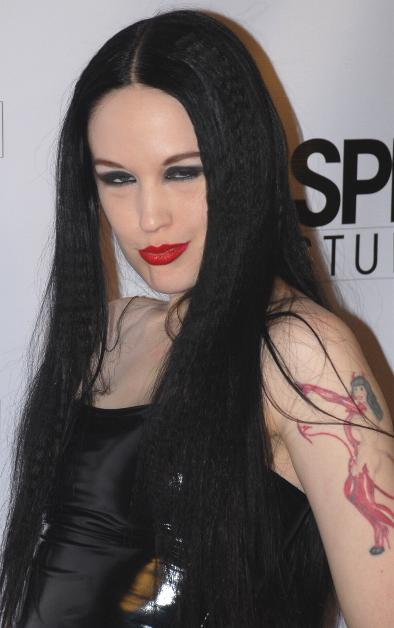 October 25, 2007 - party at Boardners on Cherokee in Hollywood